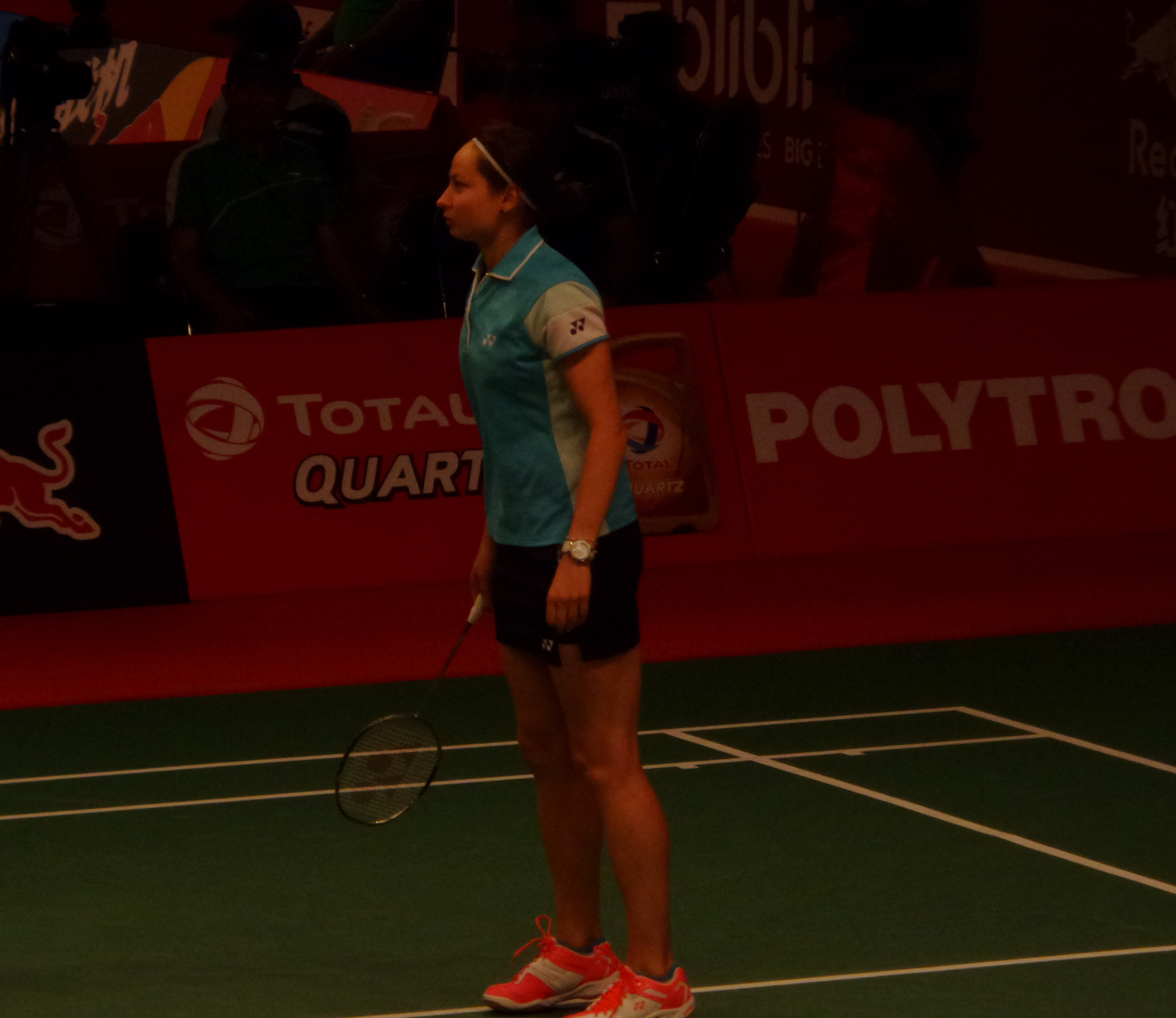 Johanna Goliszewski in action during BWF World Championships Day 2